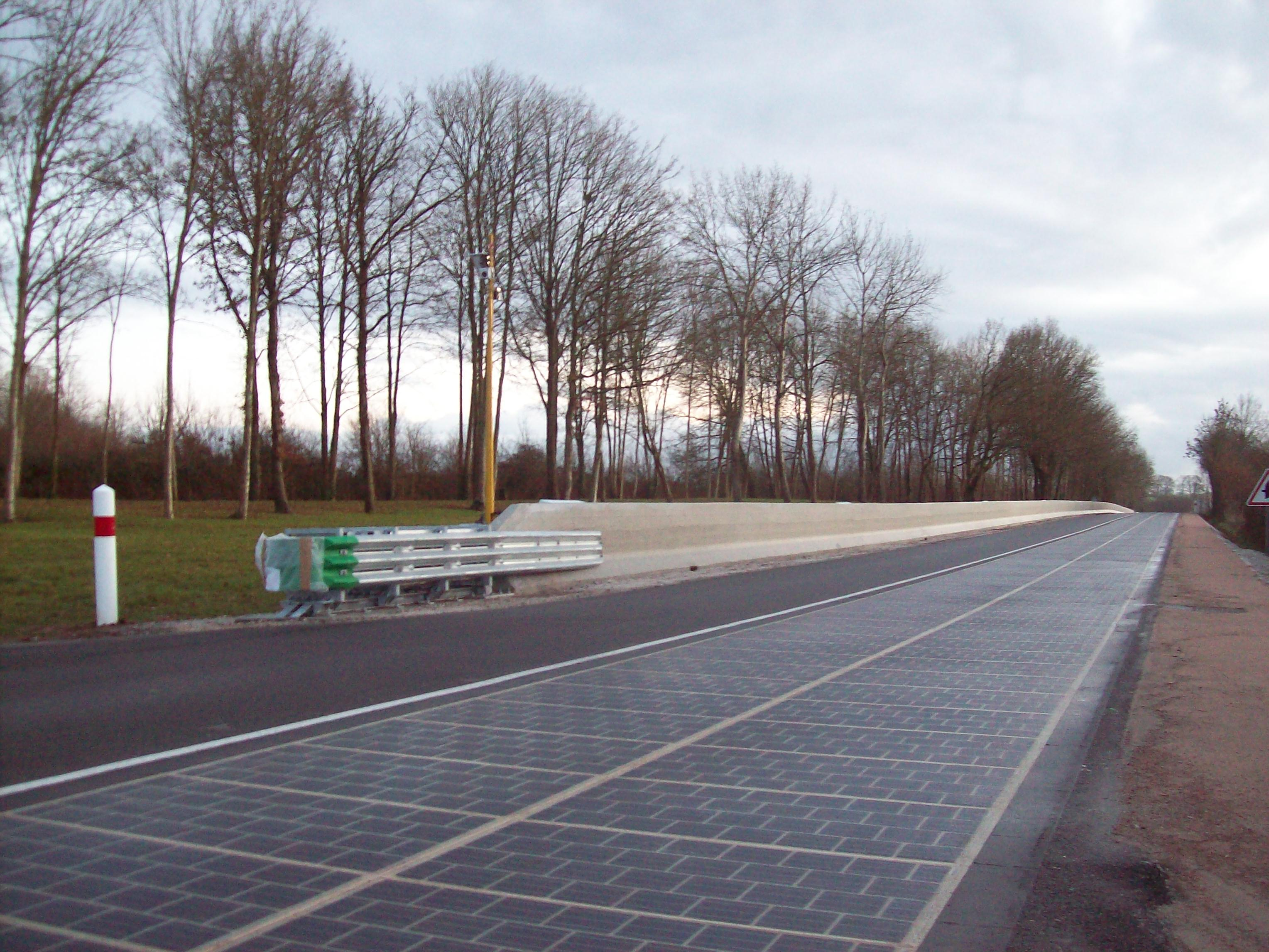 « Route solaire » (French for solar road), experimental environmental project in France to test solar cells on a road. This road section is at Tourouvre in Normandy